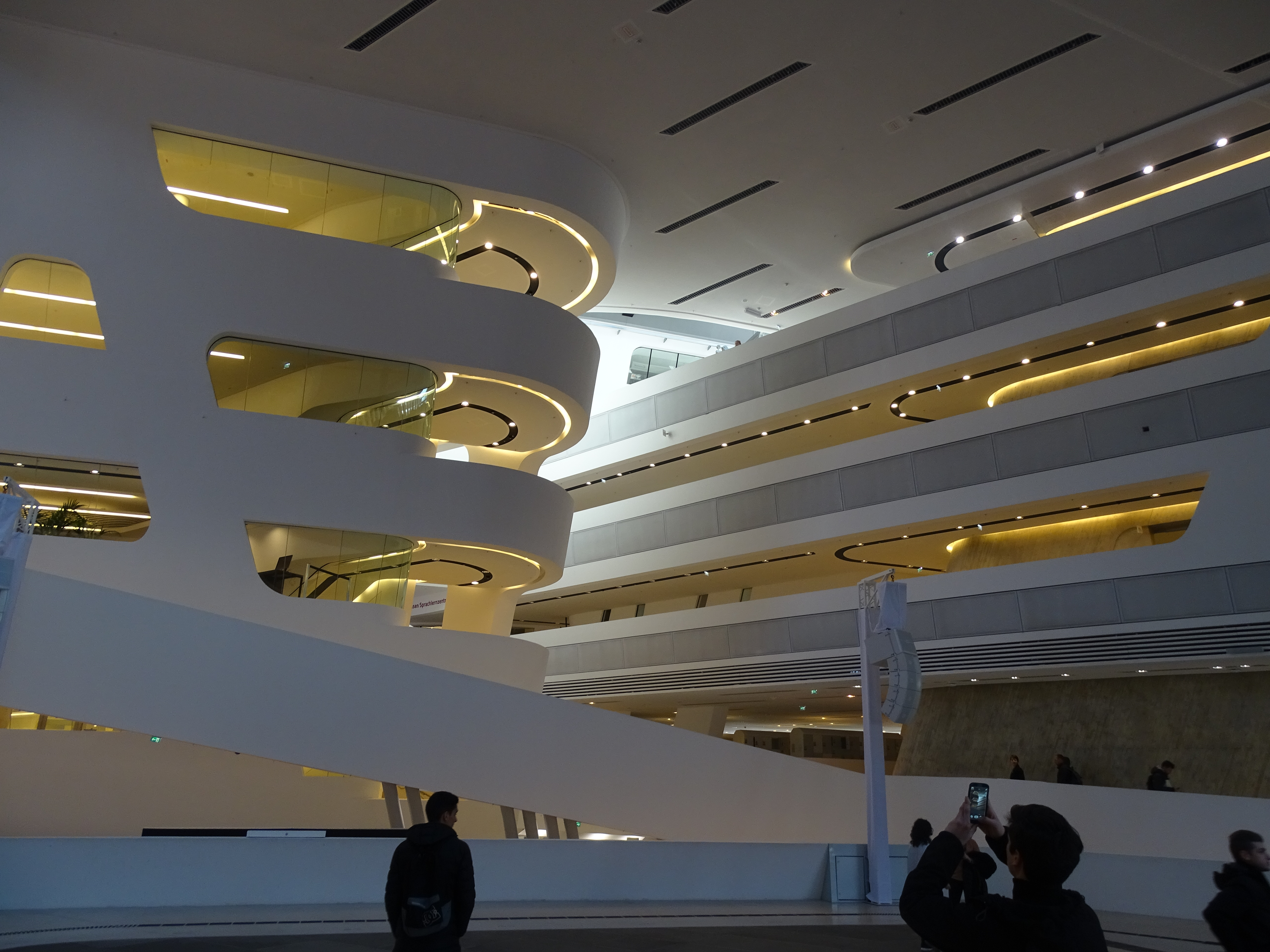 Vienna University of Economics and Business (Austria) library designed by Zaha Hadid.